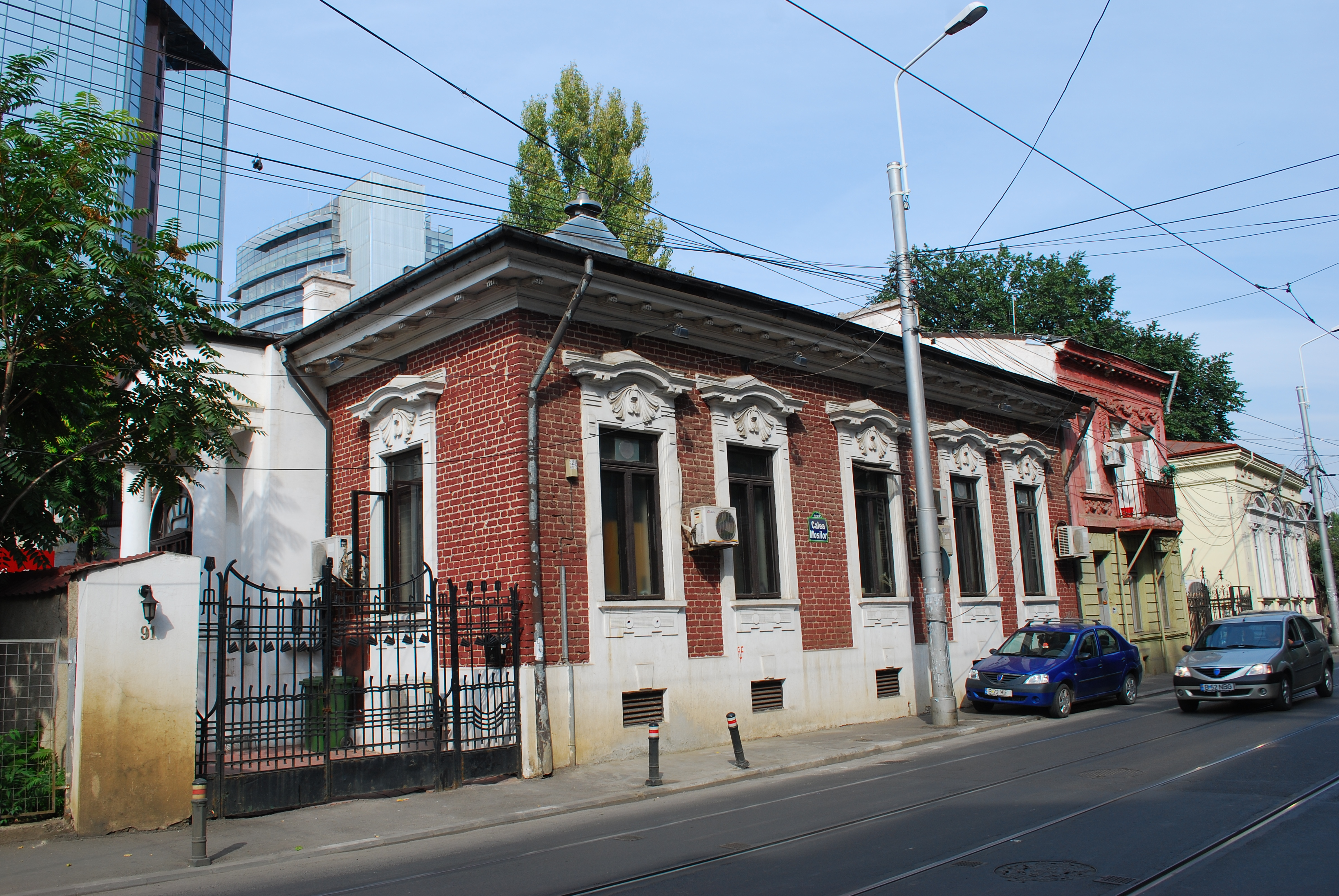 Sofia Popp house in Bucharest, Romania